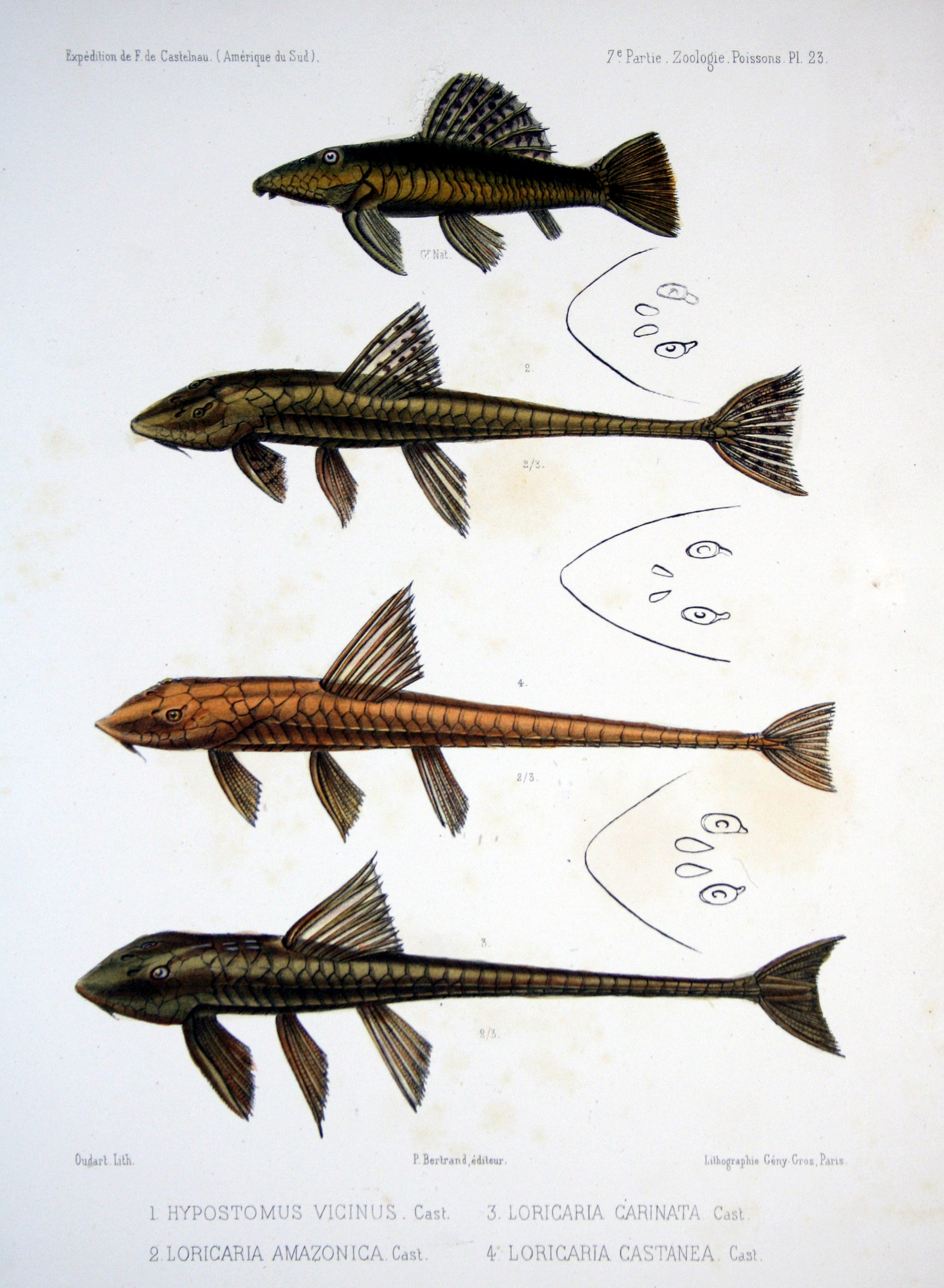 From top to bottom: Hypostomus vicinus = Parancistrus aurantiacus Loricaria amazonica = Loricariichthys maculatus + head from above Loricaria castanea = Loricariichthys castaneus + head from above Loricaria carinata = Loricaria cataphracta + head from above